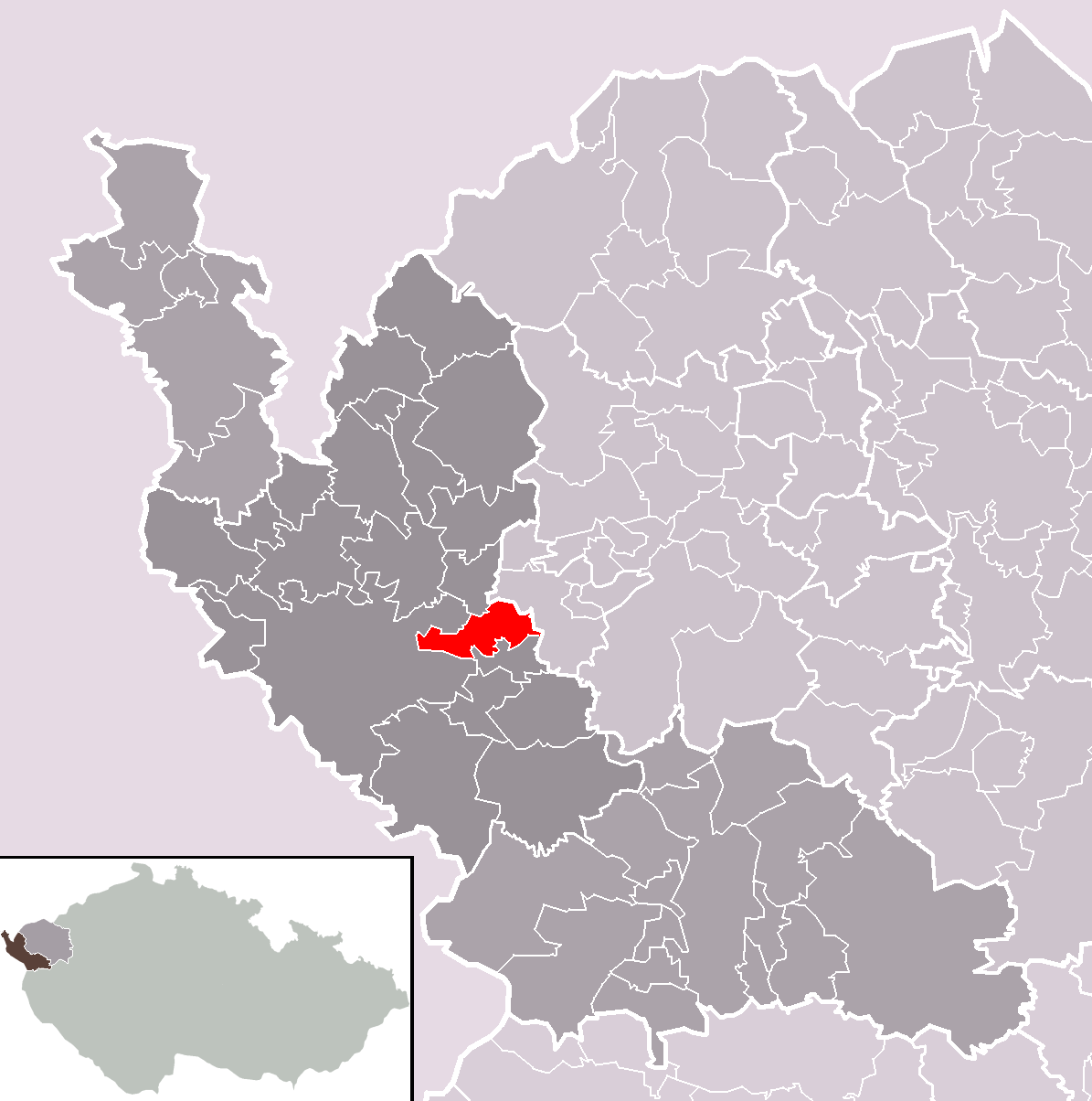 Location of Odrava municipality within Cheb District and administrative area of Cheb as a Municipality with Extended Competence.